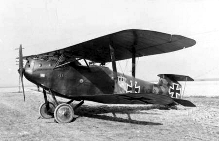 Left hand side rear view of a Hannover CL.IIIa aircraft (serial 13189/17) of Bayrische Flieger Abteilung 287 (Bavarian Flying Section 287), parked at a German airfield (Villeselve?, France) circa in January 1918. Note the crest of the state of Bavaria painted onto the body of the aircraft and the camouflage paintwork around the tail.